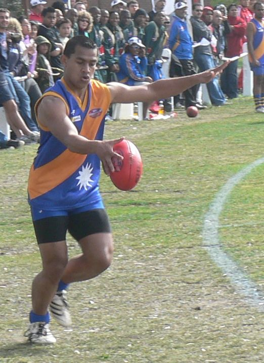 Nauruan player kicking for goal during the 2008 Australian Football International Cup